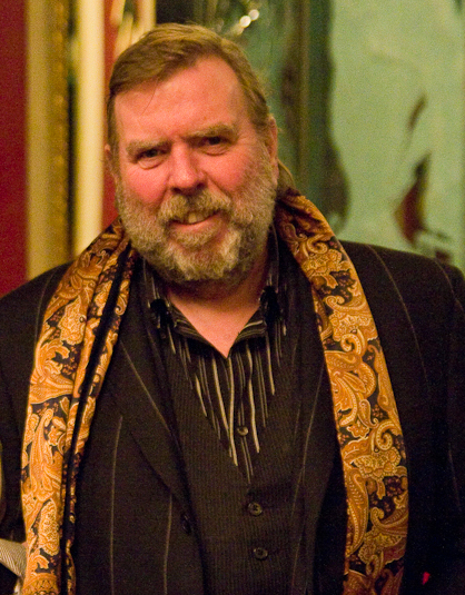 Timothy Spall at a Hudson Union Society event in February 2011.